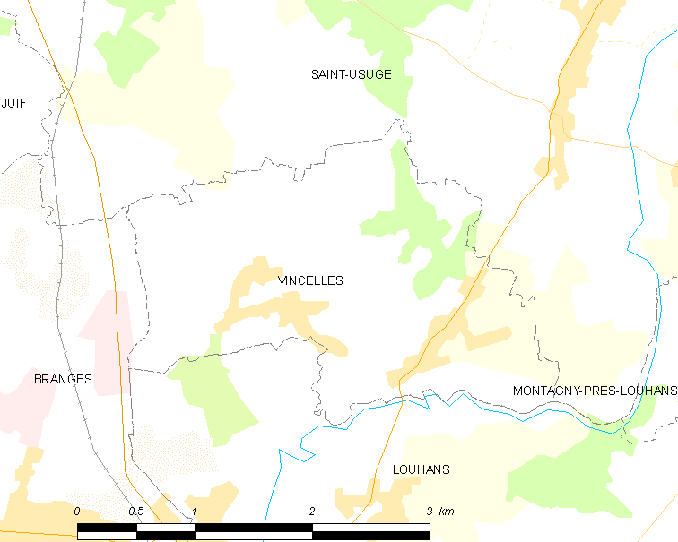 Map of French municipality